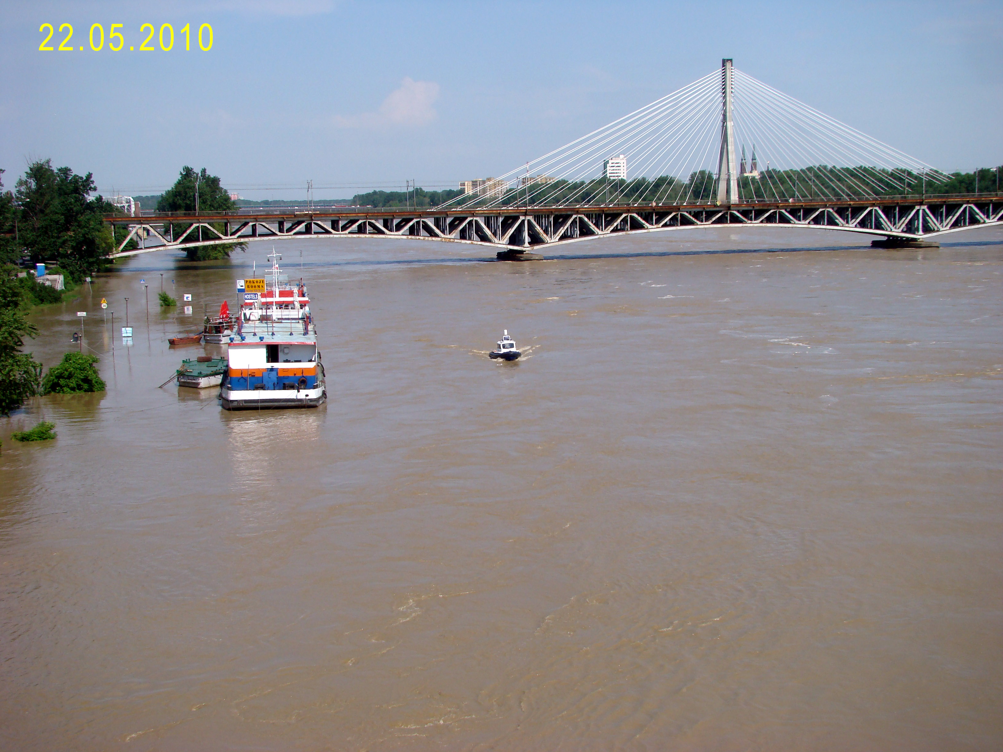 Water reaches top of the railway bridge pillar